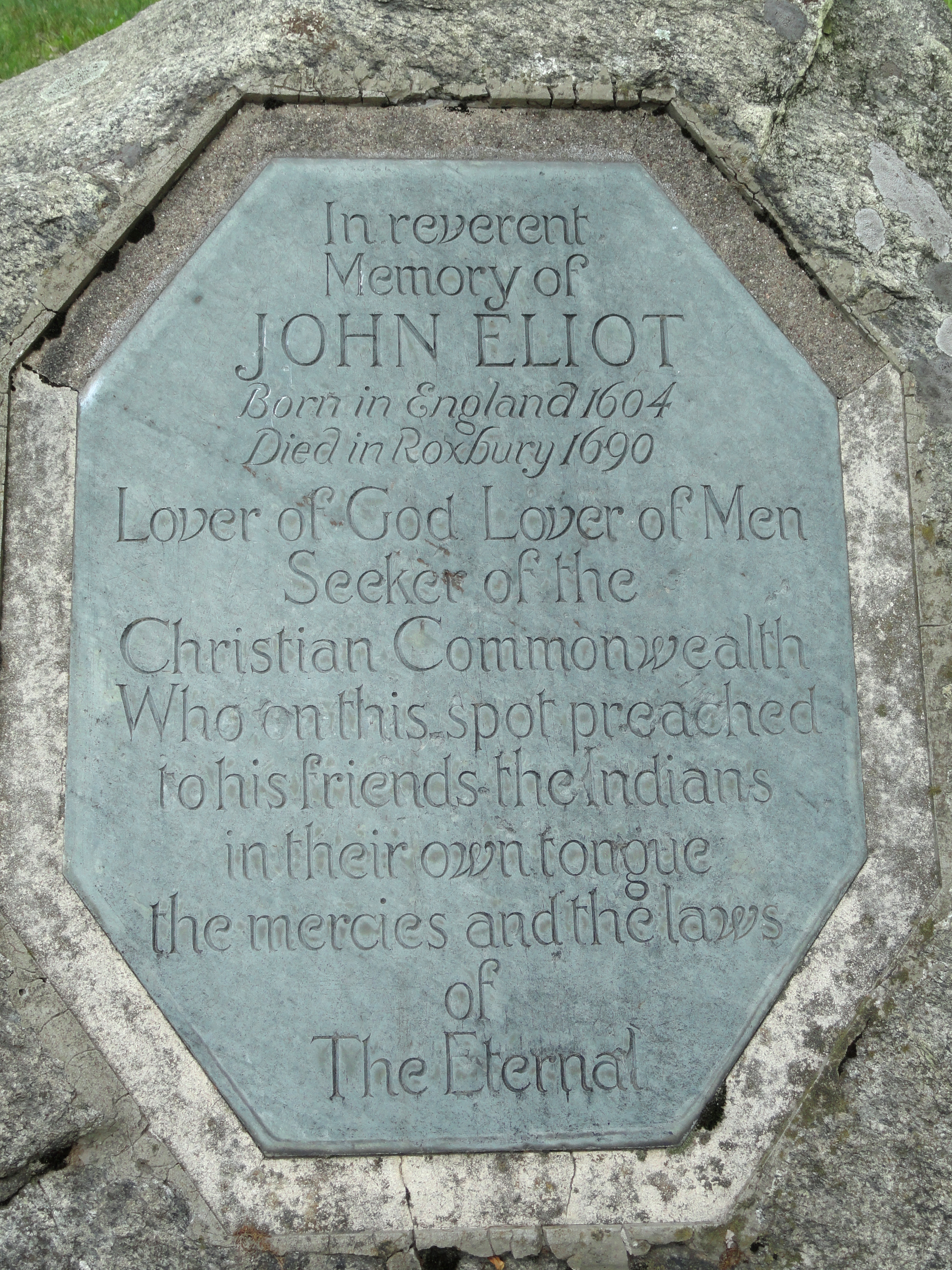 John Eliot marker, near the Eliot Church of South Natick, Pleasant Street, Natick, Massachusetts, USA.